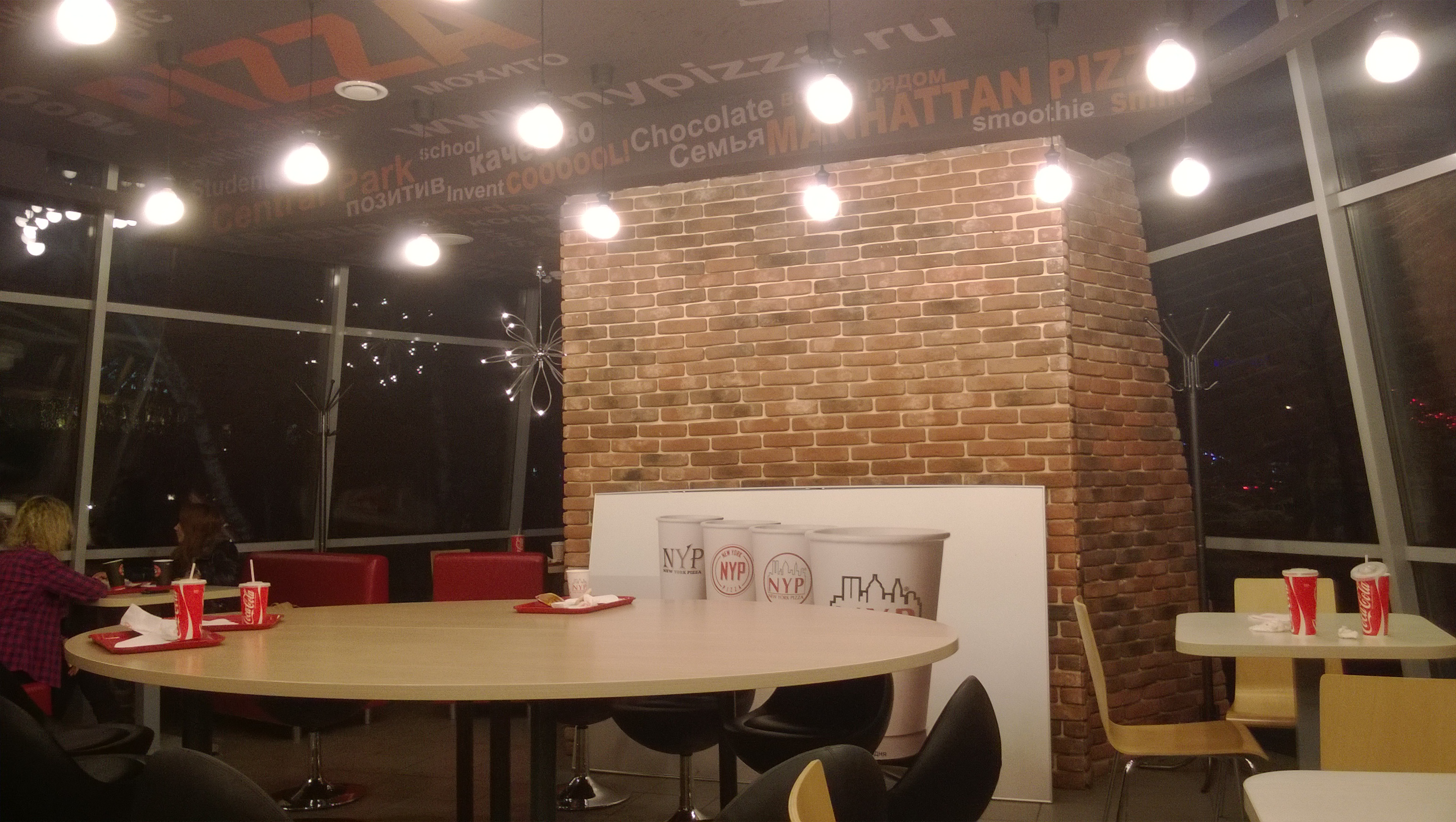 New York Pizza. Red Avenue.